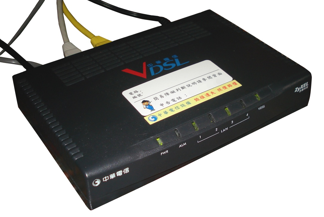 This ZyXEL VDSL modem used by Chunghwa Telecom provides 4 Ethernet ports and an internal filter for voice-data separation.